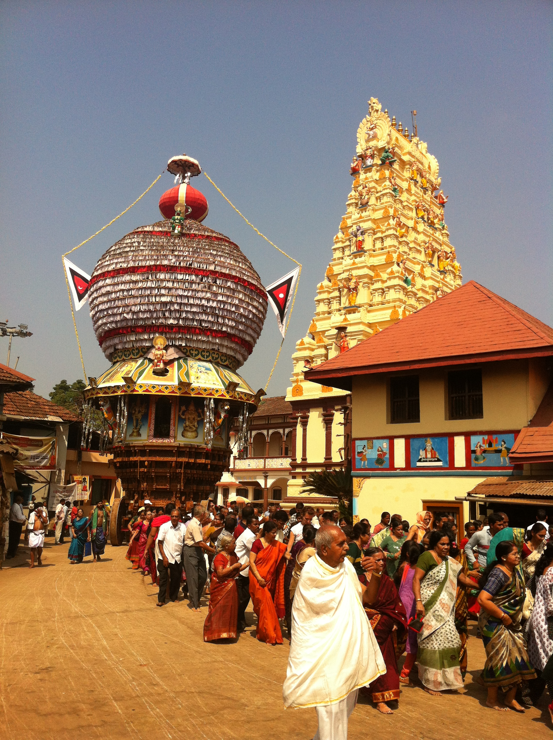 Kotilingeshwara temple in Koteshwara